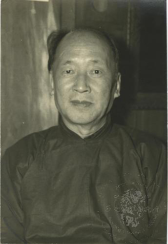 Li Ji (Li Chi), founder of Chinese archaeology